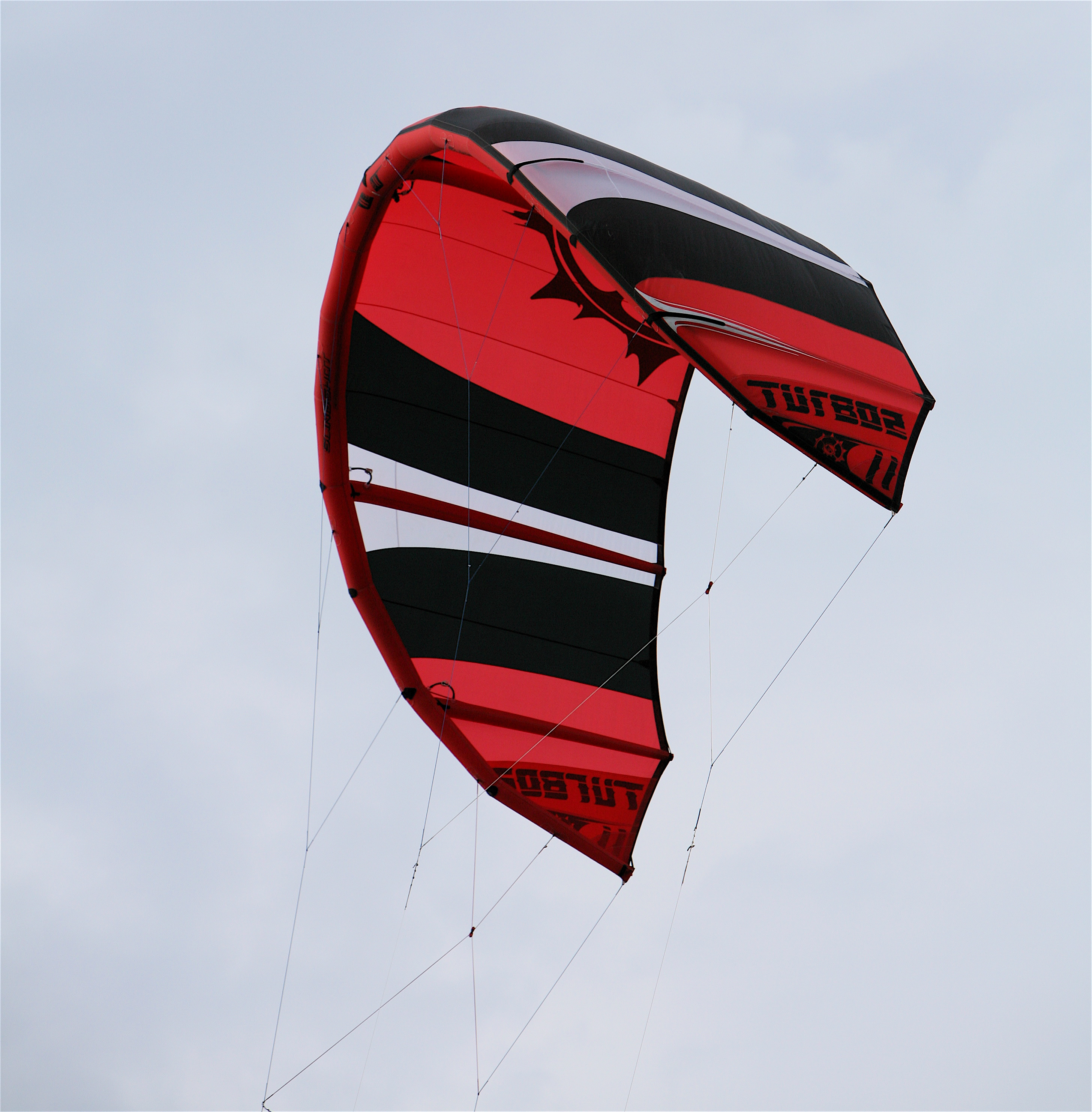 A LEI (Lead Edge Inflatable) kite used for kitesurfing.